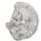 Seal of Henry, Margrave of Hachberg-Sausenberg (1316)